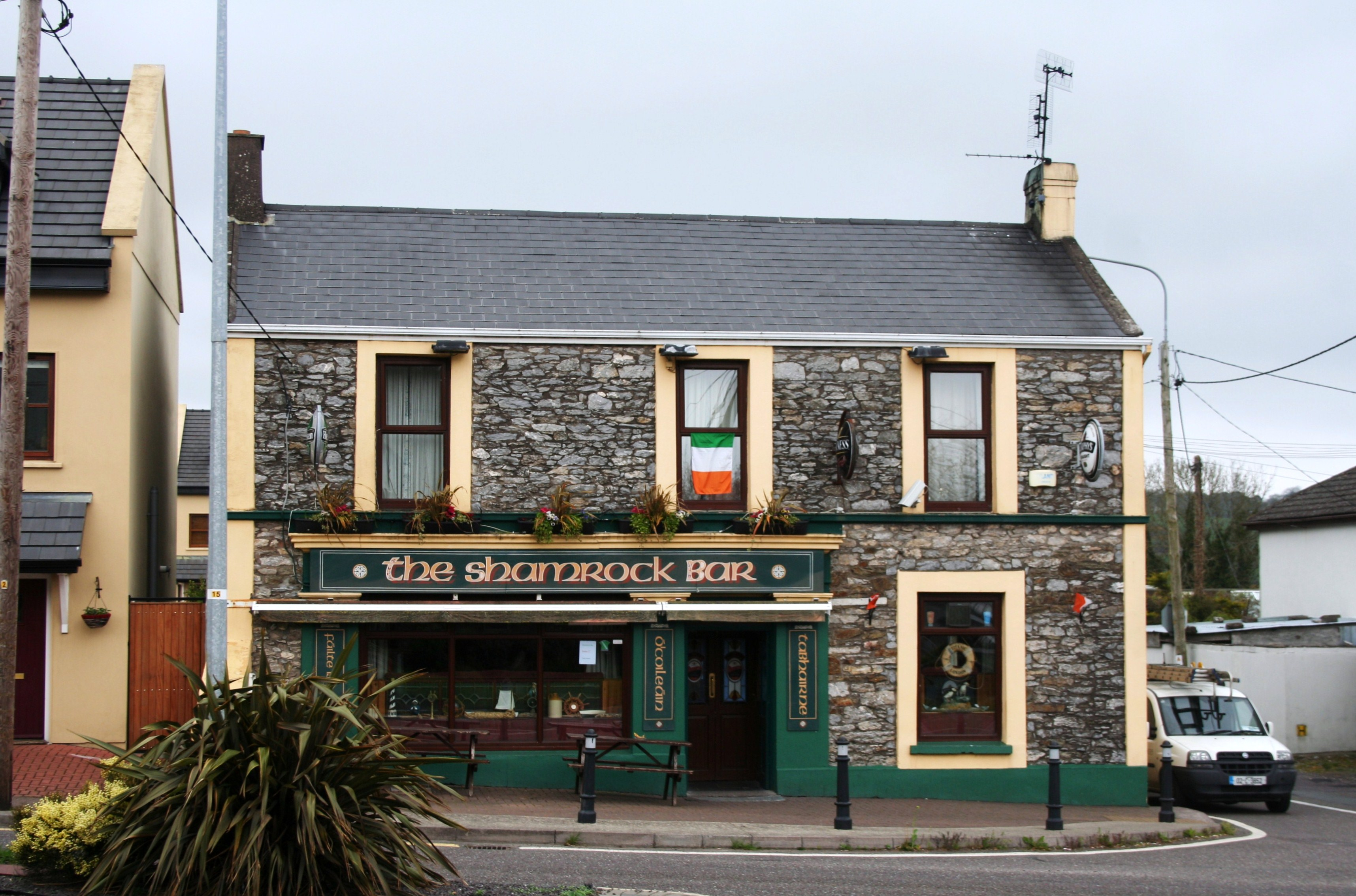 Shamrock bar Shanbally, near to Shanbally and Monkstown, Cork, Ireland. A roadside bar by the roundabout in Shanbally.